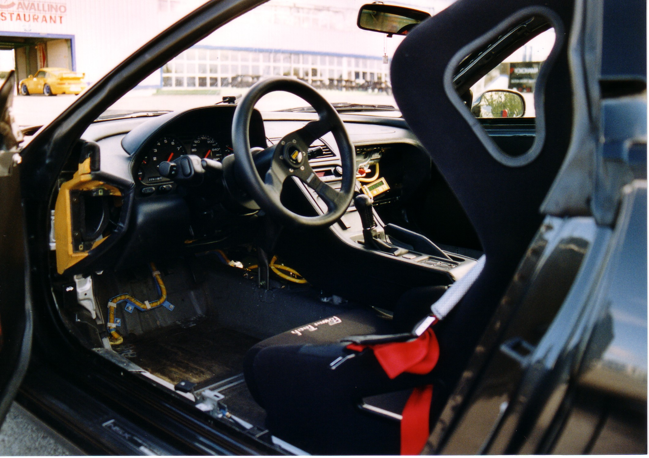 Stripped Cockpit of a '98 Honda NSX with race seats and Momo steering wheel